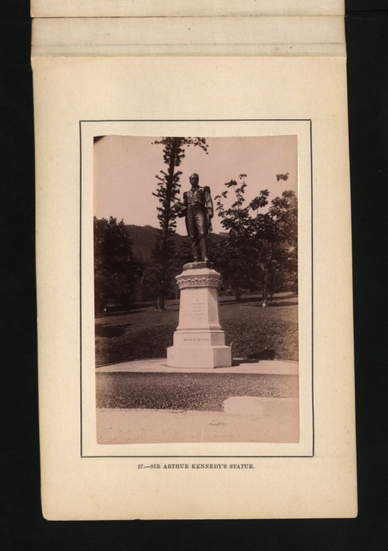 Sir Arthur Kennedy's Statue. Statue of Sir Arthur Kennedy, in the Botanical Gardens. Erected by public subscription following his death at sea in 1883, it was unveiled in November 1887 by the newly arrived Governor William Des Vœux and stood "above the second terrace looking down on the fountain". It was removed during the Japanese occupation, and never recovered.